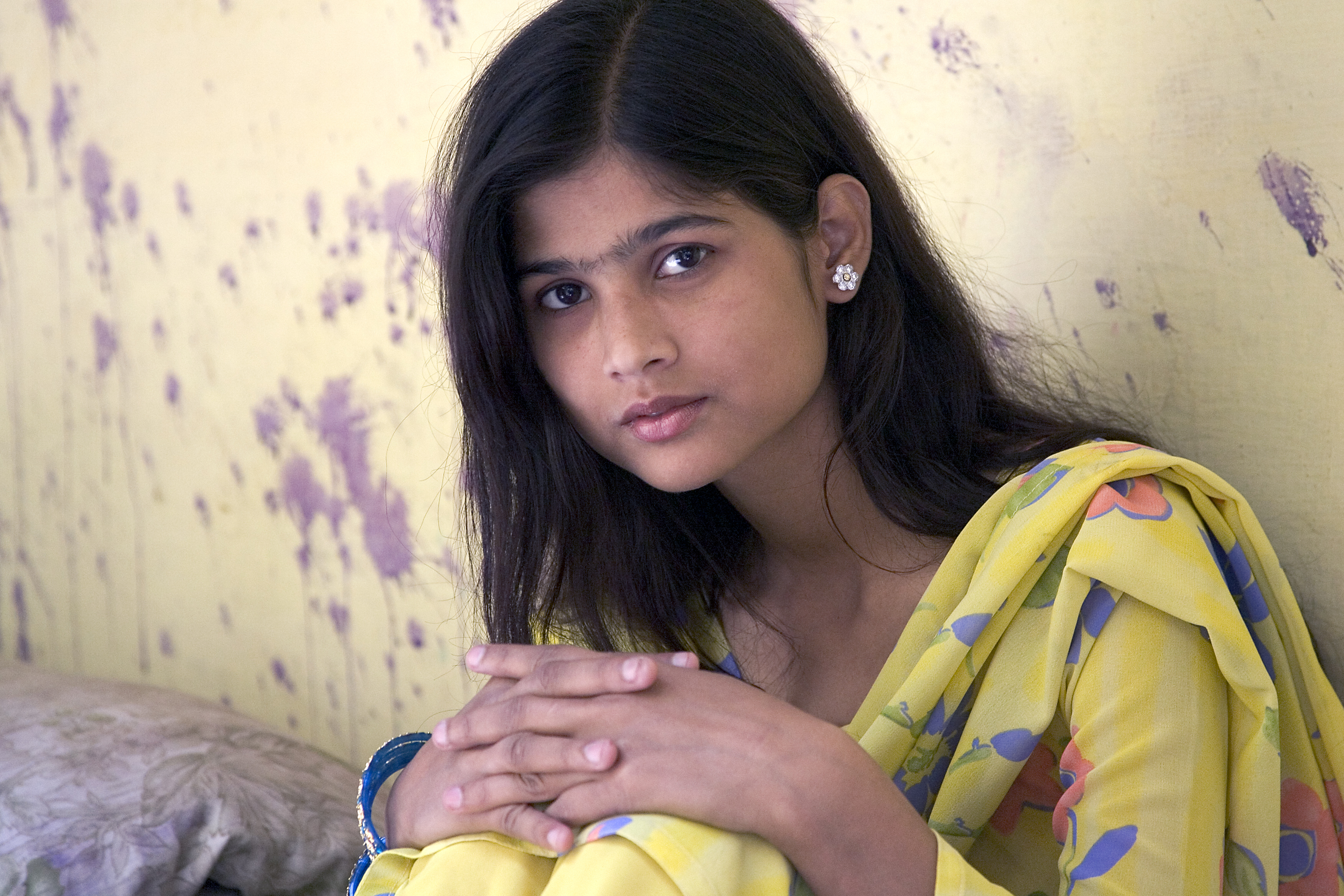 Young girl in yellow dress Delhi India